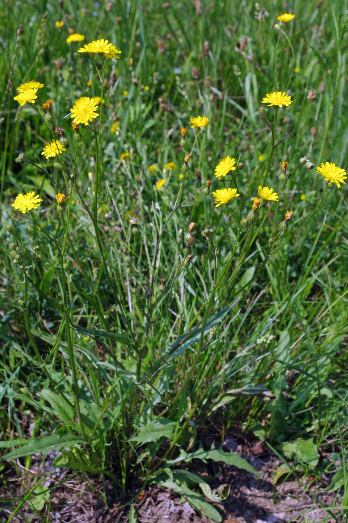 Flowering plant of Crepis capillaris.